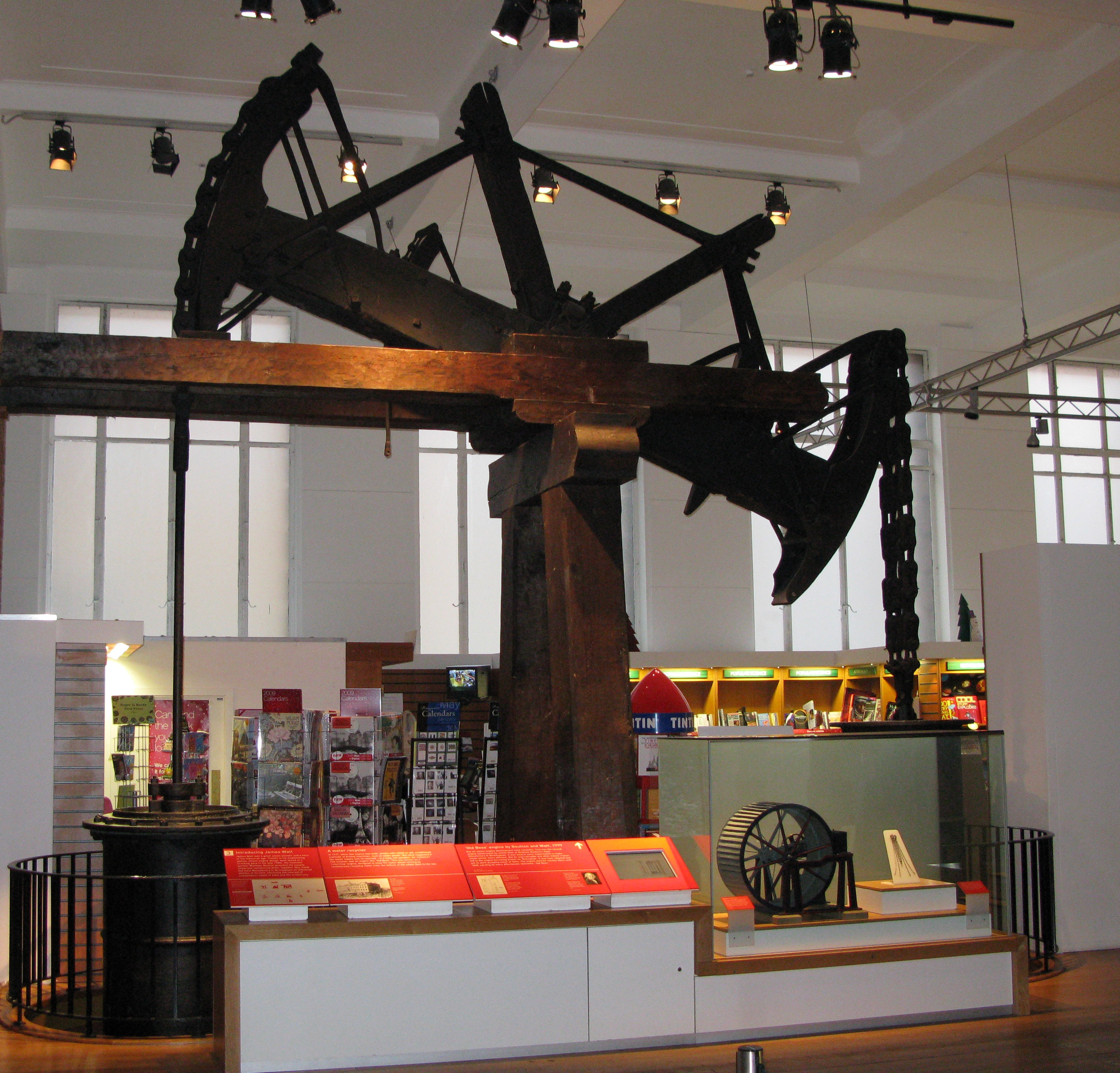 Watt's beam engine Old Bess, dating from 1777 and built by Boulton and Watt